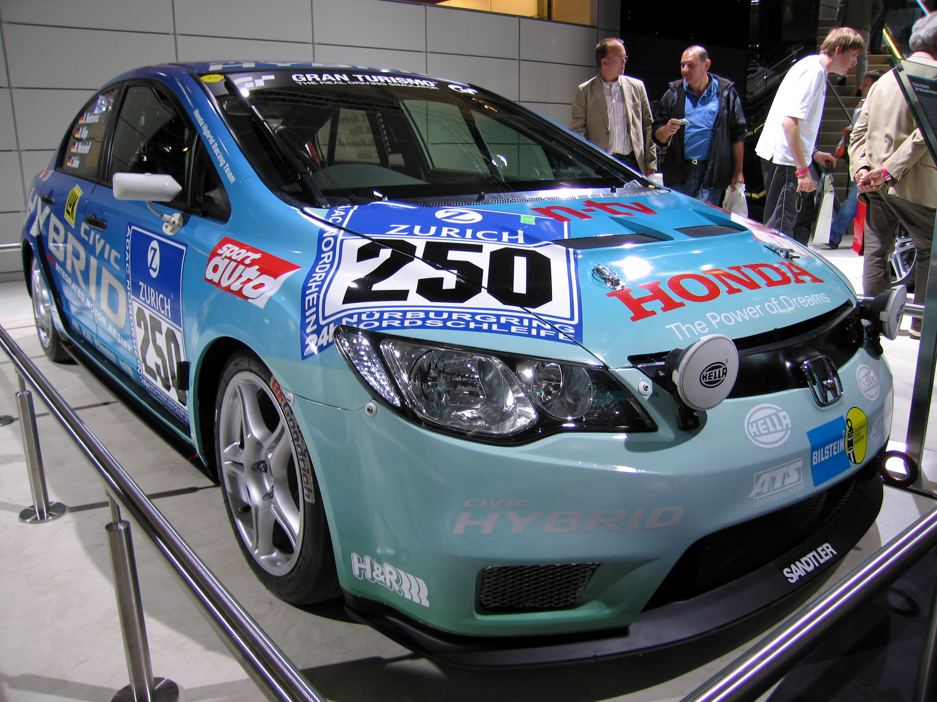 Honda Civic Hybrid racing car at the IAA 2007